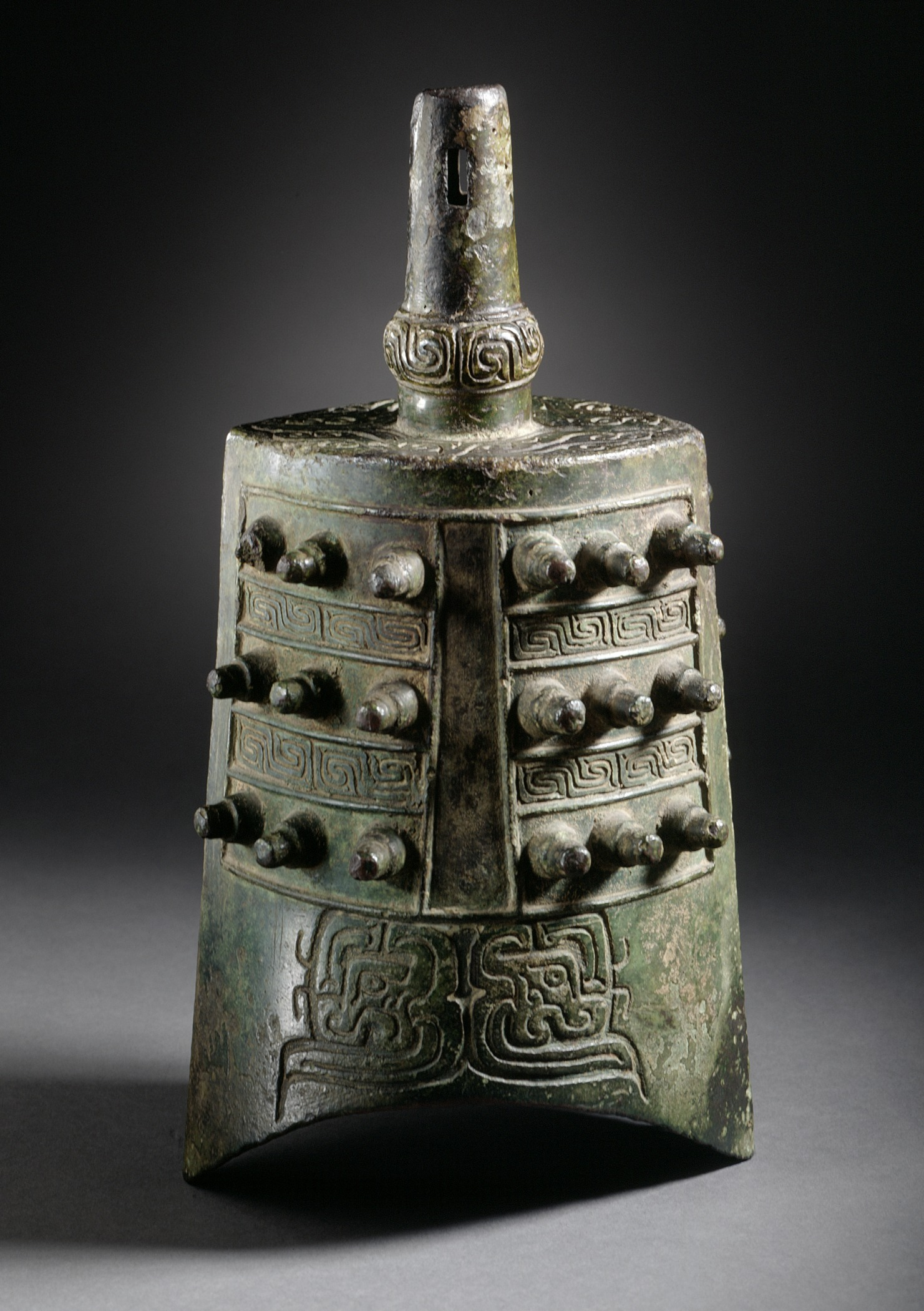 China, probably Shaanxi Province, Late Western Zhou dynasty, about 850-771 B.C. Tools and Equipment; musical instruments Cast bronze 12 3/4 x 6 5/8 x 4 3/4 in. (32.385 x 16.8275 x 12.065 cm) Gift of Mr. and Mrs. Eric Lidow (AC1998.251.17) Chinese Art Currently on public view: Hammer Building, floor 2